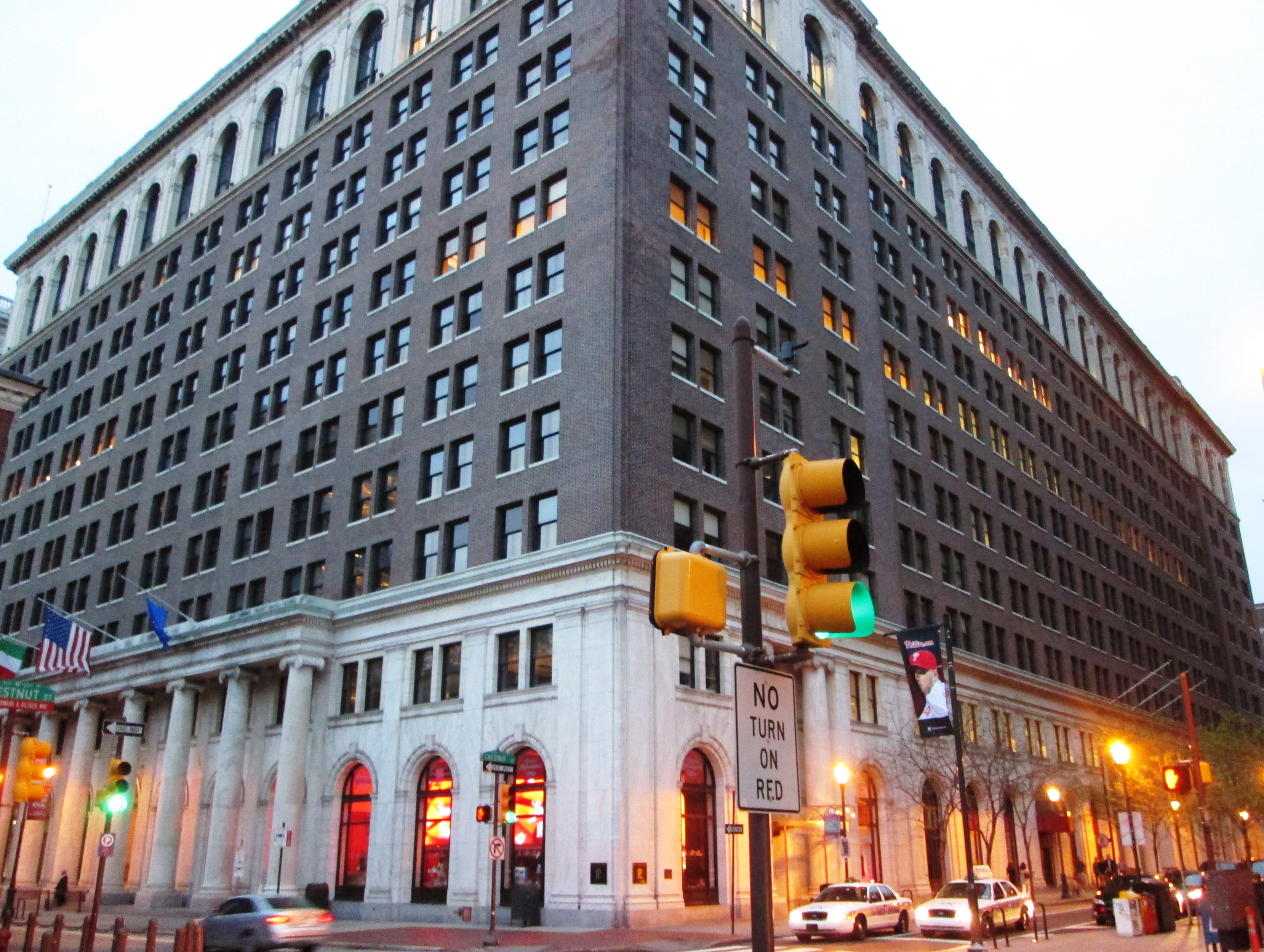 The Public Ledger Building at Chestnut and S. 6th Streets in the Center City area of Philadelphia was built in 1924 and was designed by Horace Trombauer in the Georgian Revival style. The newspaper was founded in 1836 by Cyrus H. K. Curtis, the publisher of the Saturday Evening Post, and was Philadelphia's leading newspaper until 1940. (Source: Philadelphia Architecture: A Guide to the City (2nd ed.)) The morning and Sunday editions of the newspaper were folded into the Philadelphia Inquirer in 1939, but the Evening Public Ledger continued to publish until 1942.